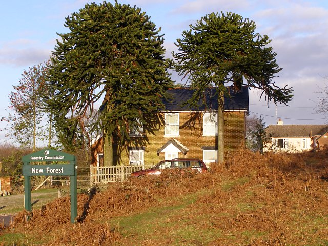 Monkey puzzle cottage, near Linwood, New Forest This cottage is on the edge of the Crown lands of the New Forest (hence the green Forestry Commission sign in the foreground on the left), where it borders the edge of Ibsley and Rockford Commons (both now owned by the National Trust). The narrow and winding road from Moyles Court to Linwood passes right past this cottage, which has two monkey puzzle trees in the front garden.